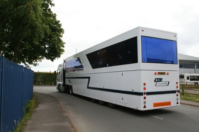 Next stop Silverstone